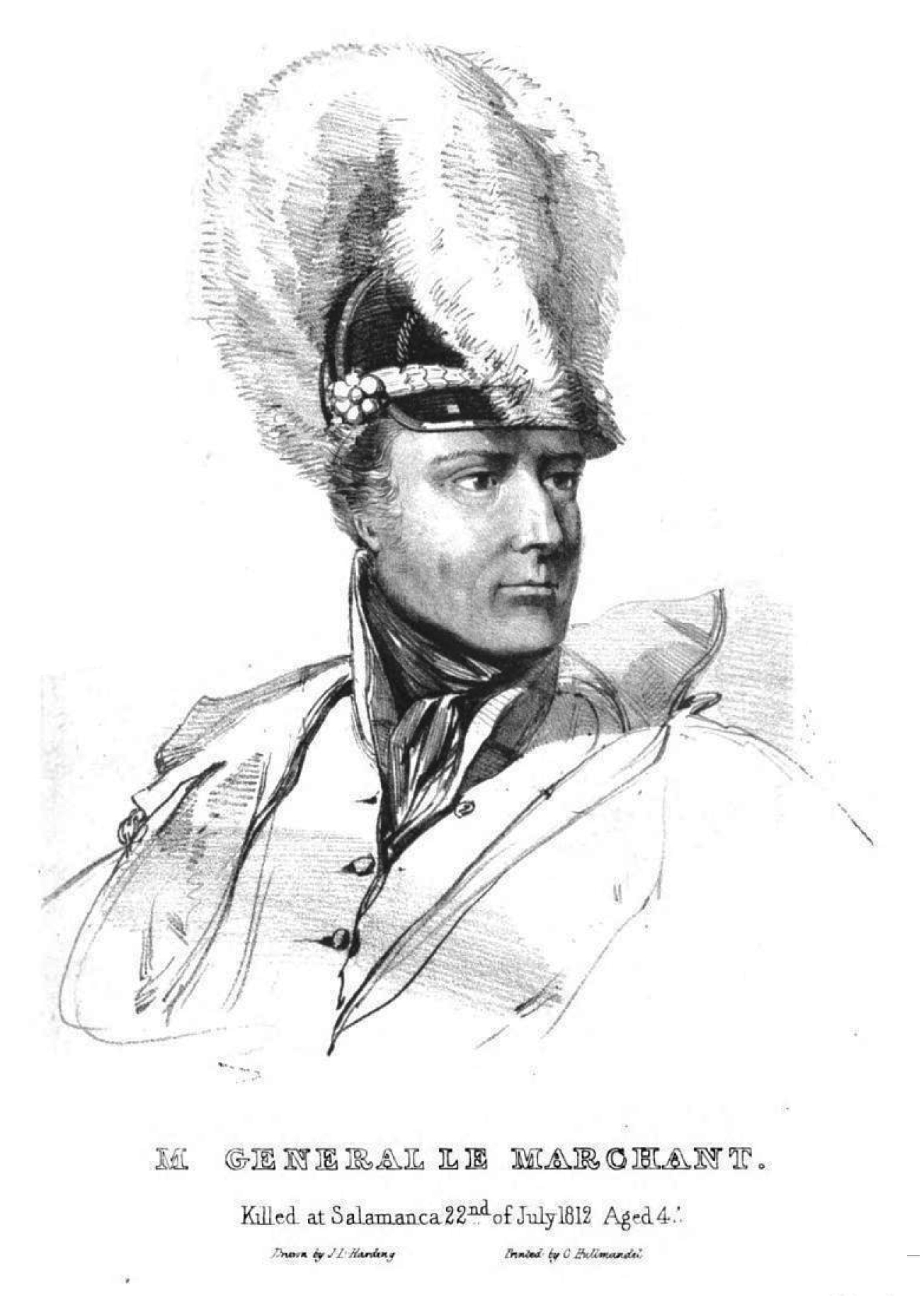 John Le Marchant (British Army officer, born 1766)